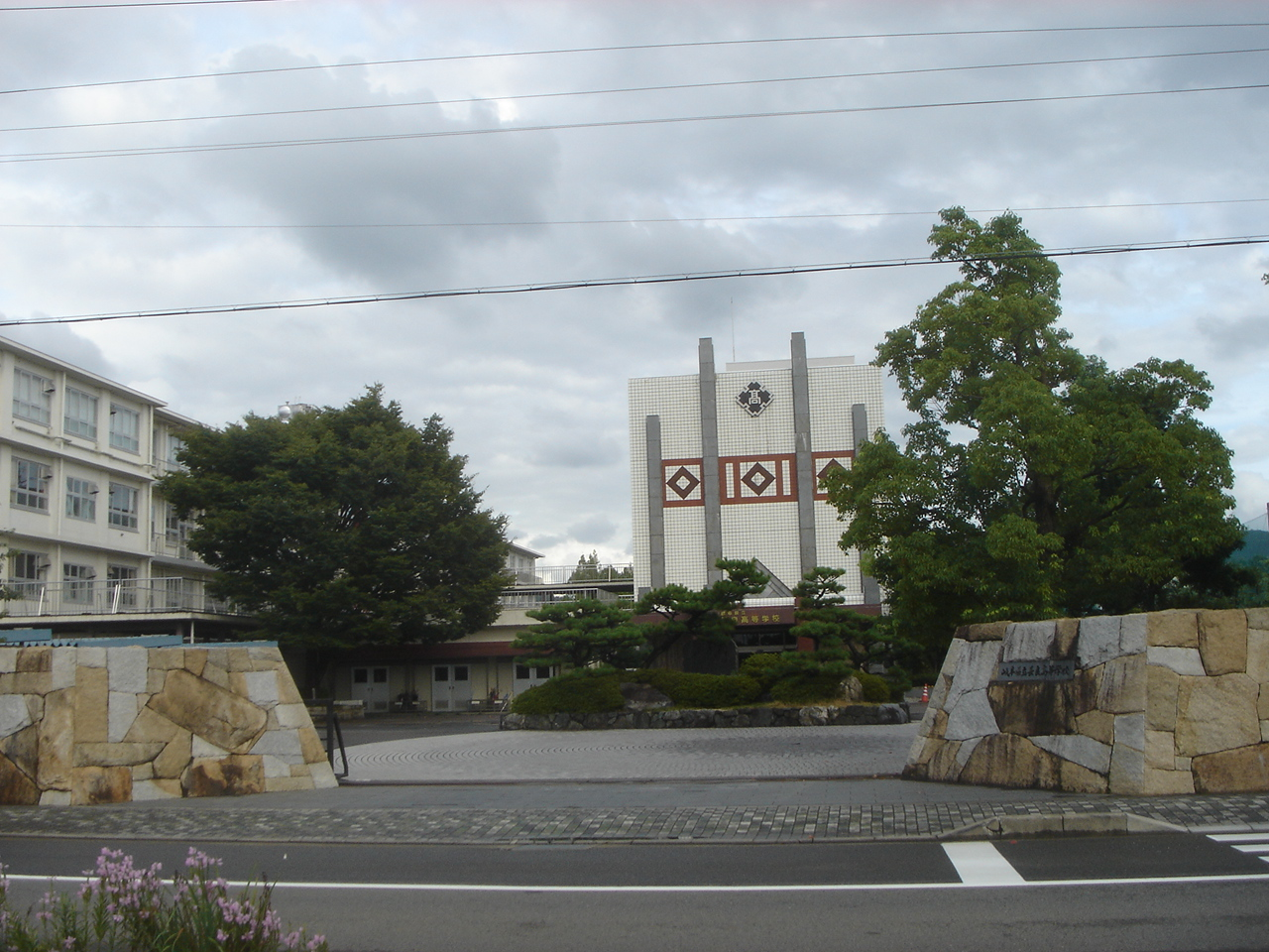 Nagara High school in Gifu Pref.（岐阜県立長良高等学校）,Gifu,Gifu,Japan(岐阜県岐阜市)で撮影。